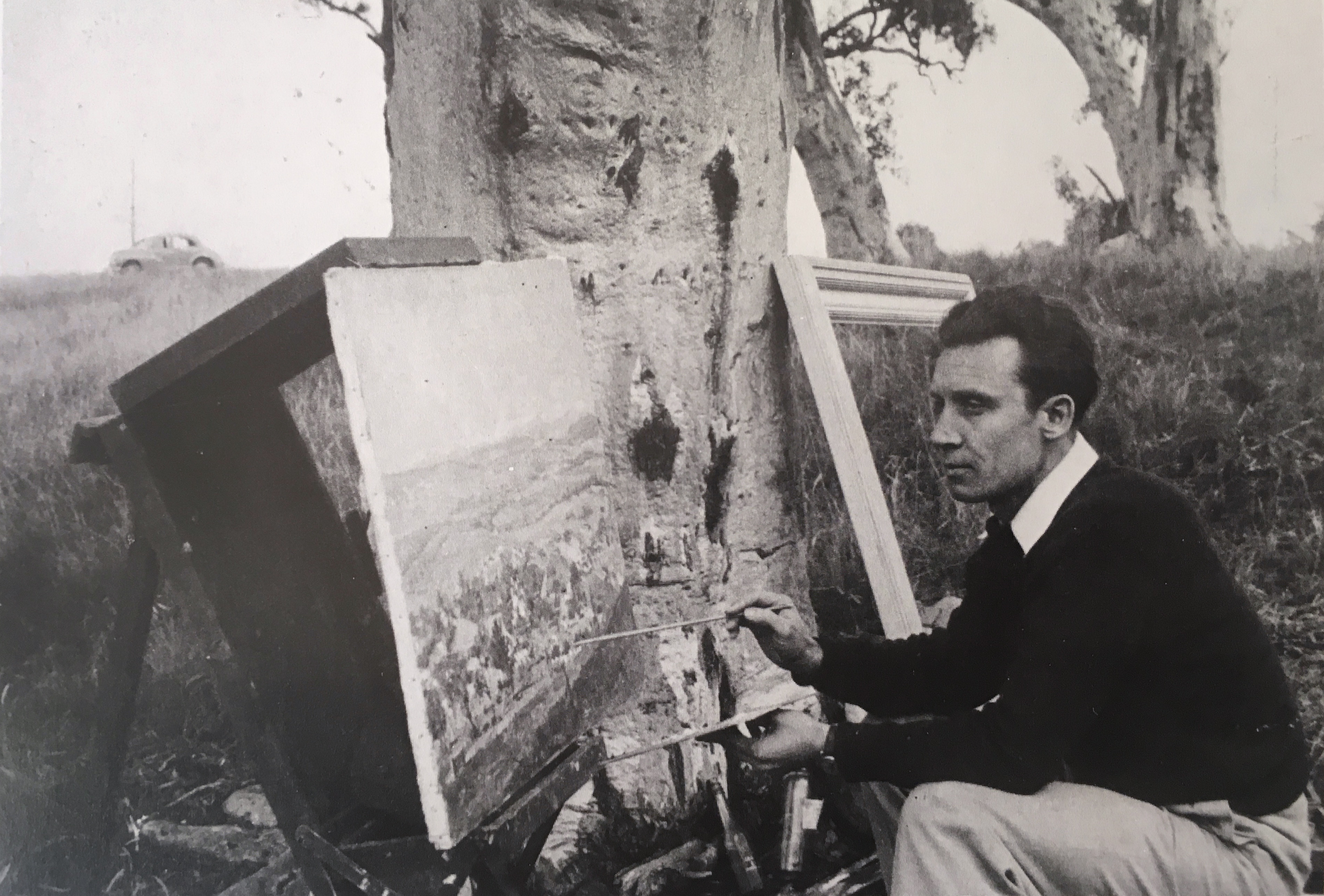 Artist Reinis Zusters painting outdoors